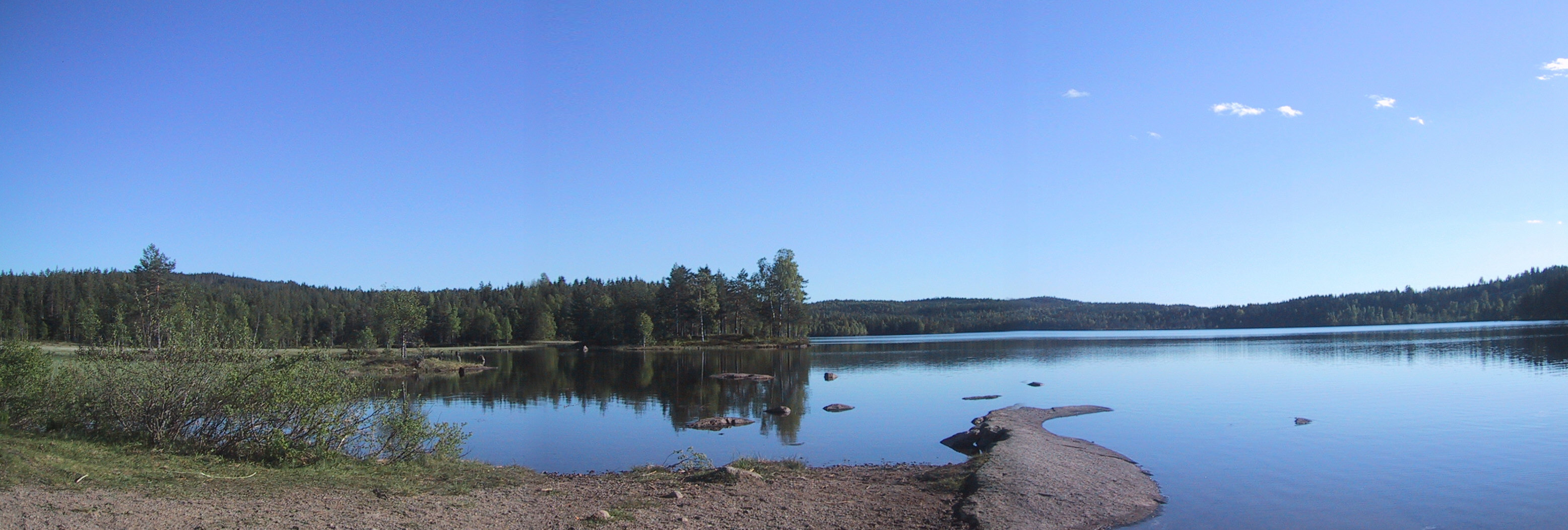 Picture of Langvann in Nordmarka, Oslo. Northern part toward the south. Close to the road and the small dam toward Elvann.